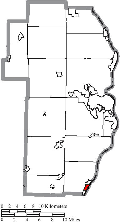 Map of the municipal and township boundaries of Jefferson County, Ohio, United States, as of the 2000 census, with the location of the village of Tiltonsville highlighted. Township borders are shown only in unincorporated areas in order to differentiate incorporated and unincorporated areas more clearly.